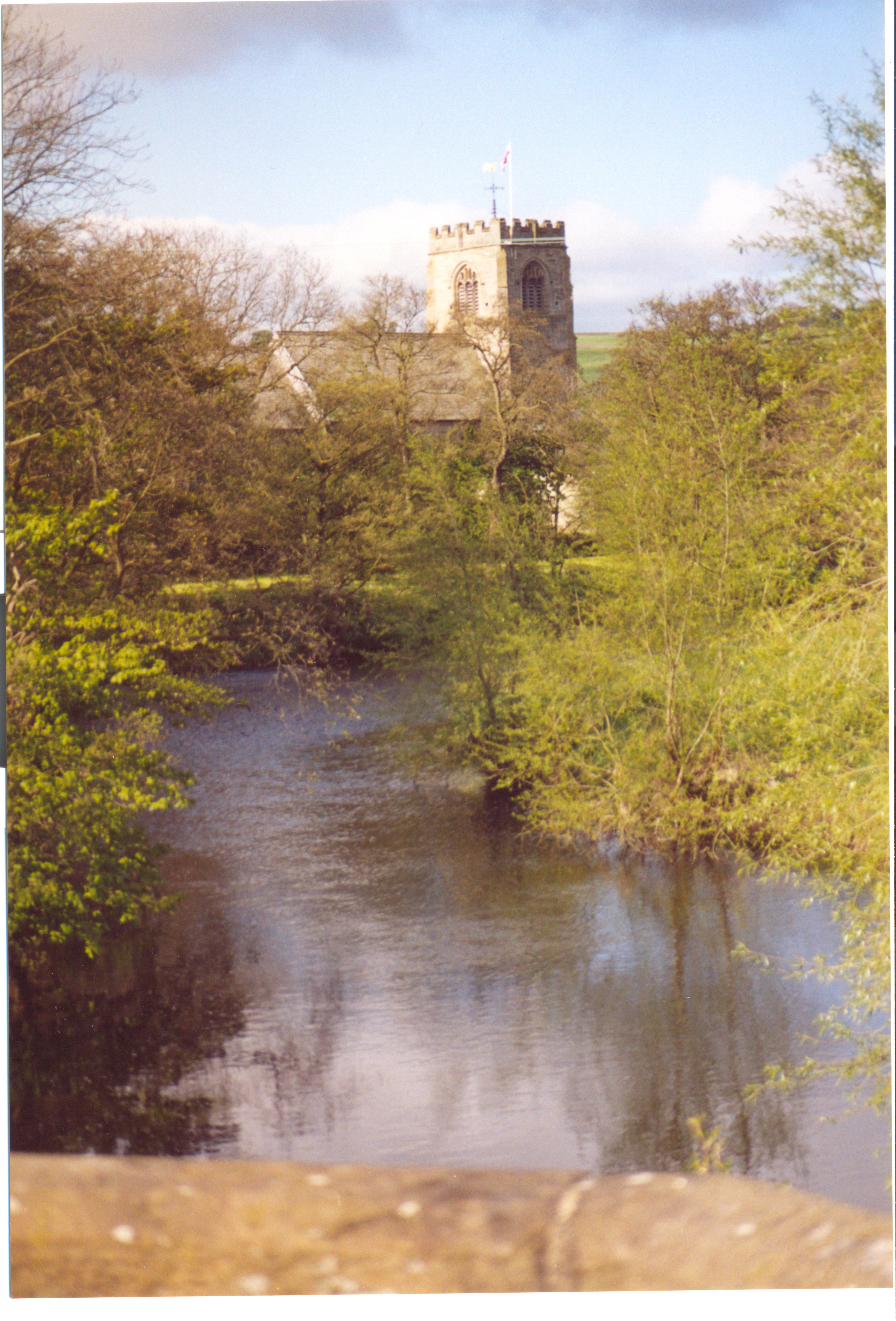 A view of the church of St Thomas a'Becket from Hampsthwaite Bridge across the River Nidd